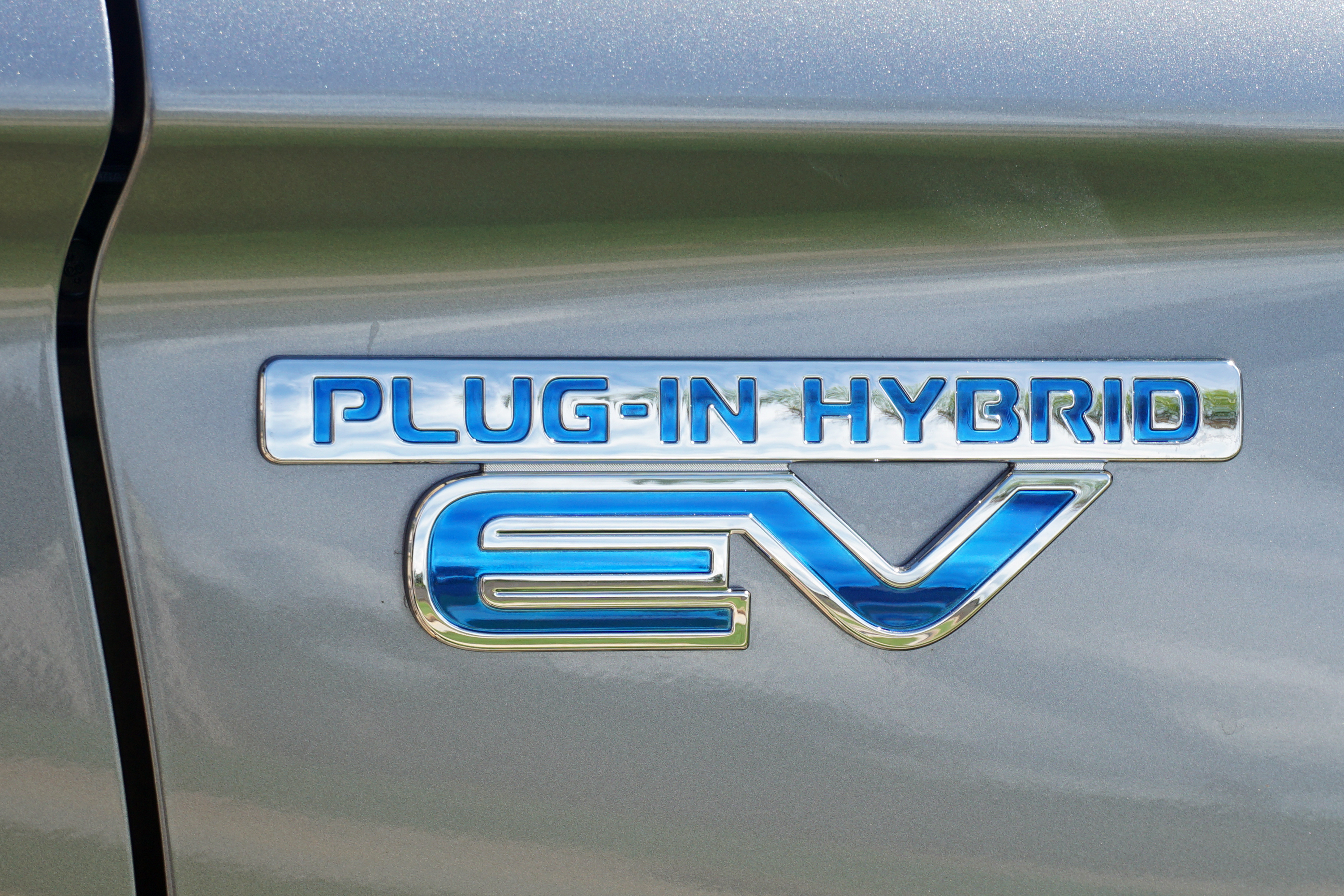 Lateral plug-in hybrid badge, 2014 Mitsubishi Outlander P-HEV